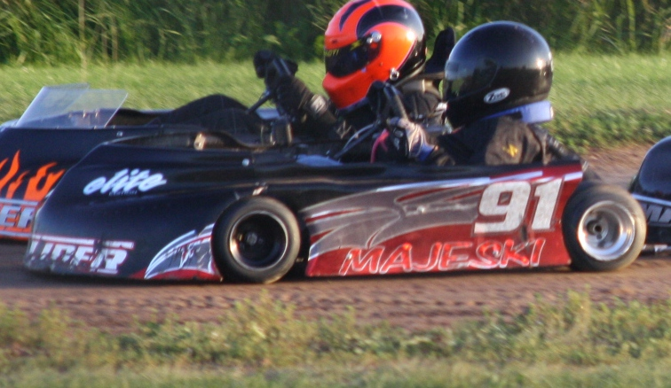 The 2010 kart of Ty Majeski at the now-defunct Meadowview Kartway near Hilbert, Wisconsin.